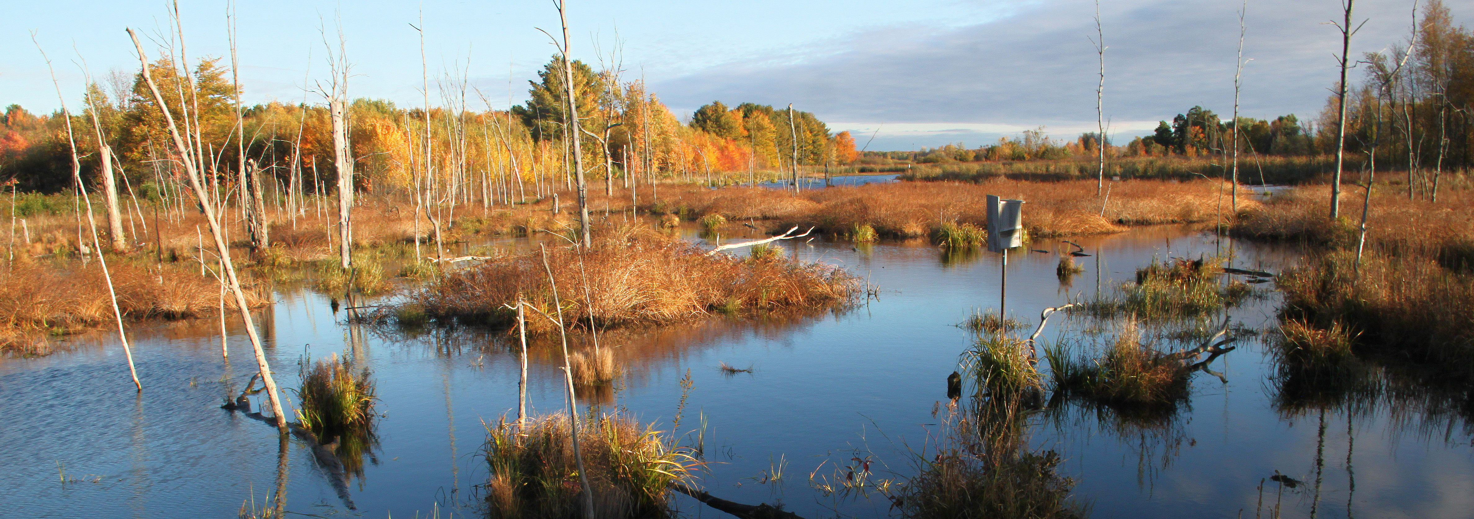 Wetland at Stephen Young Marsh